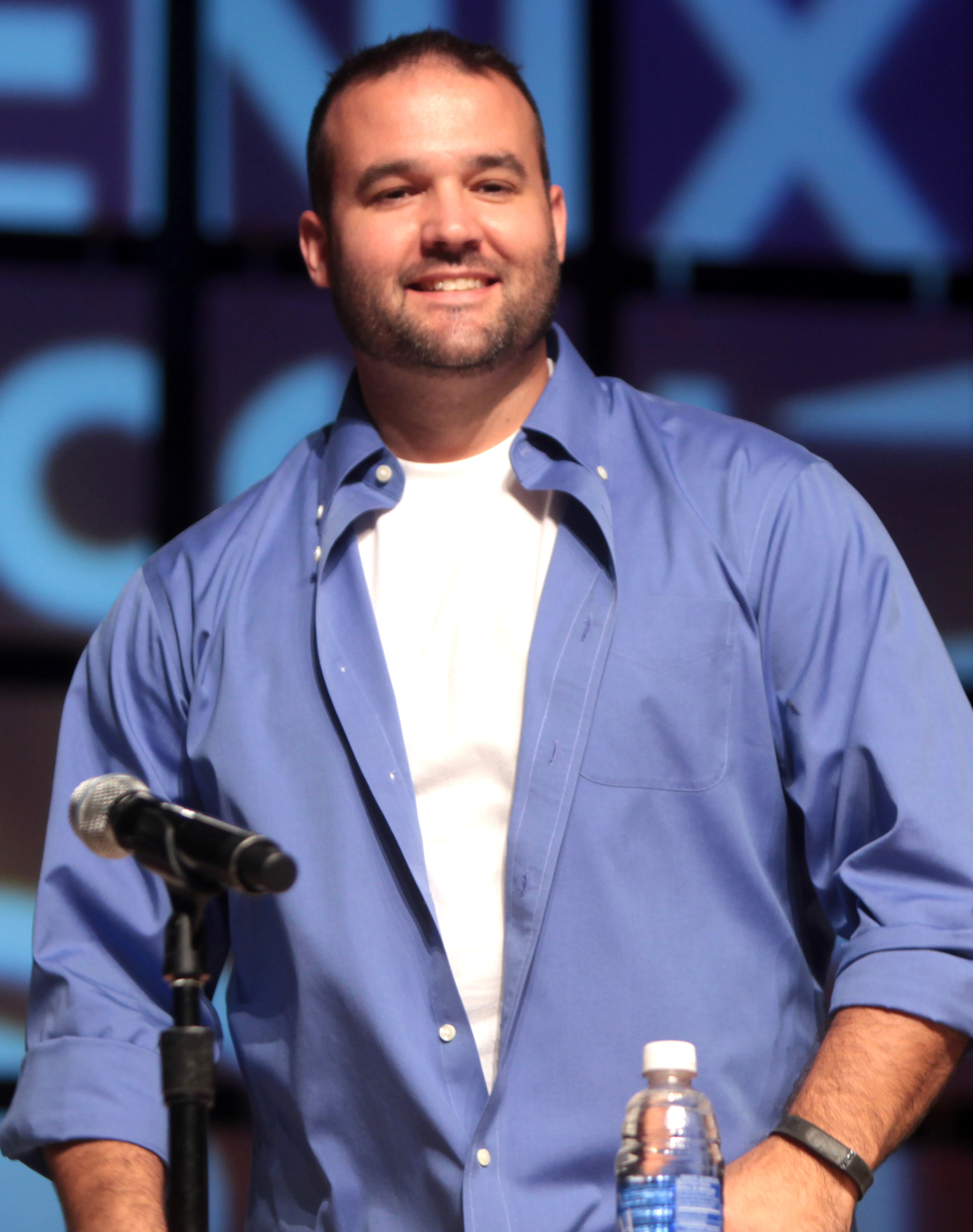 Austin St. John speaking at the 2014 Phoenix Comicon on June 6, 2014.